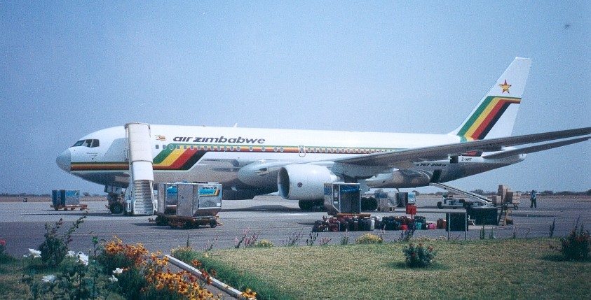 avion (Boeing 767-200ER) d'Air Zimbabwe, Aéroport de Bulawayo